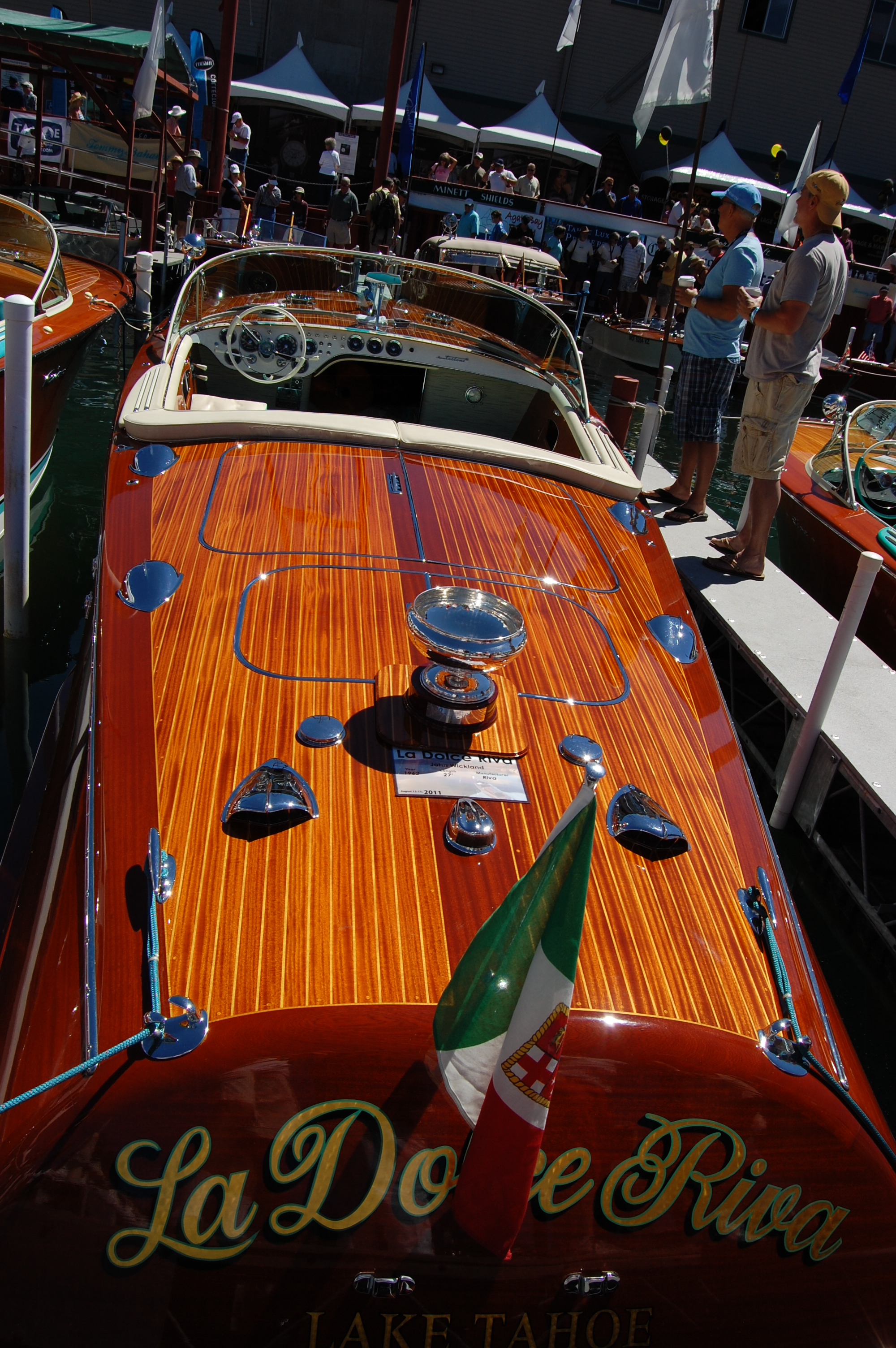 An first-place Riva Aristan